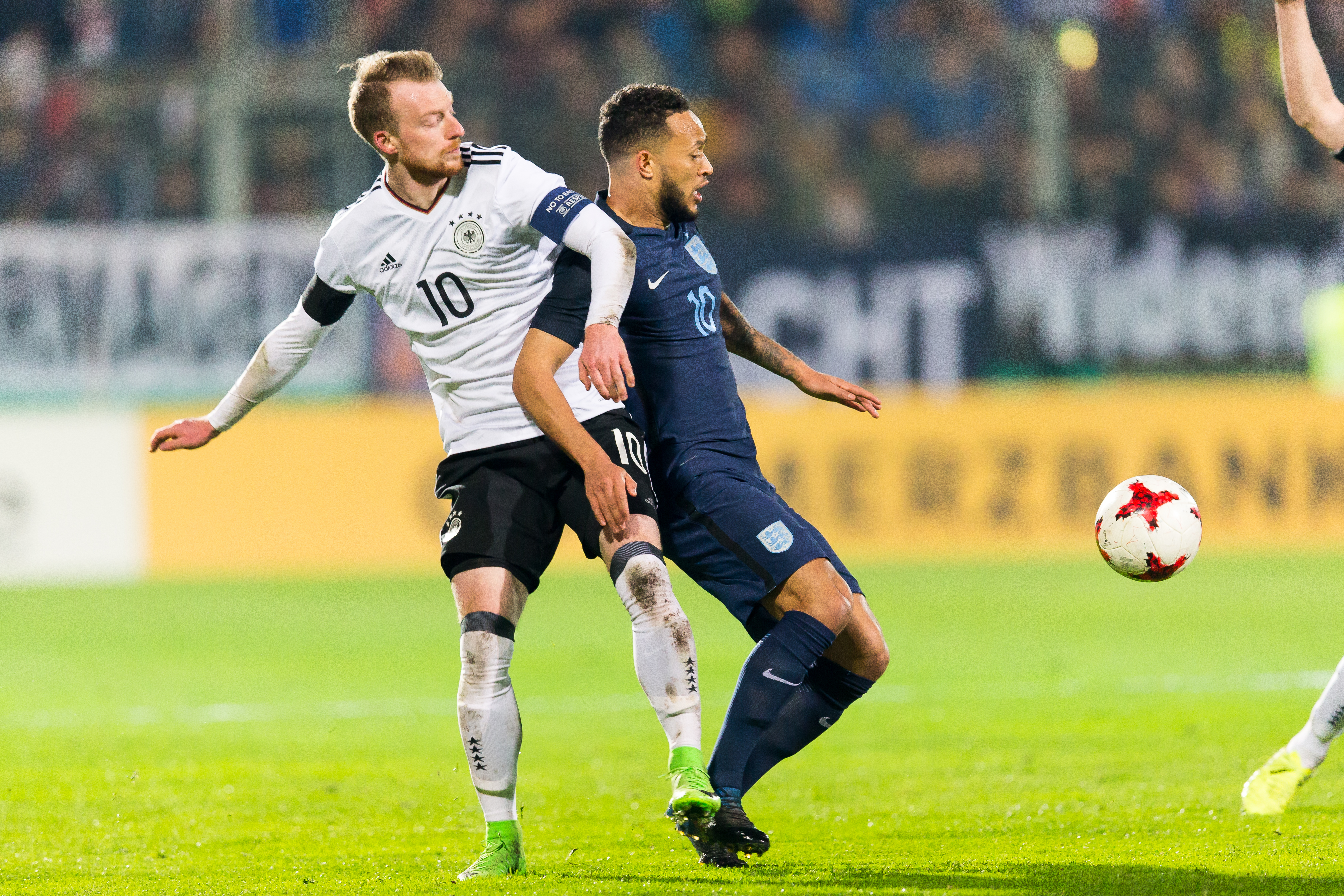 Football U21 Germany vs England (1:0) Team Germany 12 Julian Pollersbeck (1. FC Kaiserslautern) 1 Marvin Schwäbe (Dynamo Dresden) 23 Odisseas Vlachodimos (Panathinaikos Athen) 16 Kevin Akpoguma (Fortuna Düsseldorf) 3 Yannick Gerhardt (VfL Wolfsburg) 5 Matthias Ginter (Borussia Dortmund) 22 Benjamin Henrichs (Bayer 04 Leverkusen) 15 Marc-Oliver Kempf (SC Freiburg) 4 Niklas Stark (Hertha BSC) 13 Jeremy Toljan (1899 Hoffenheim) 2 Mitchell Weiser (Hertha BSC) 18 Nadiem Amiri (1899 Hoffenheim) 10 Maximilian Arnold (VfL Wolfsburg) 25 Hany Mukhtar (Brøndby IF) 7 Max Meyer (FC Schalke 04) 19 Janik Haberer (SC Freiburg) 21 Gideon Jung (Hamburger SV) 20 Levin Öztunali (1. FSV Mainz 05) 17 Maximilian Philipp (SC Freiburg) 9 Davie Selke (RB Leipzig) 27 Thilo Kehrer (FC Schalke 04) Team England 1 Jordan Pickford (Sunderland) 2 Mason Holgate (Everton) 13 Angus Gunn (Manchester City) 21 Christian Walton (Brighton) 16 Kortney Hause (Wolverhampton) 5 Jack Stephens (Southampton) 15 Rob Holding (Arsenal) 12 Joe Gomez (Liverpool) 3 Ben Chilwell (Leicester City) 6 Alfie Mawson (Swansea City) 22 Sam McQueen (Southampton) 4 Nathaniel Chalobah (Chelsea) 14 Will Hughes (Derby County) 20 Ruben Loftus-Cheek (Chelsea) 10 Lewis Baker (Vitesse Arnheim) 18 John Swift (Reading) 23 Jack Grealish (Aston Villa) 8 Harry Winks (Hotspur) 19 Cauley Woodrow (Fulham) 9 Tammy Abraham (Bristol City) 17 Solly March (Brighton) 11 Jacob Murphy (Norwich) during Fussball U21 Deutschland vs England at Brita-Arena, Wiesbaden, Hessen, Germany on 2017-03-24, Photo: Sven Mandel